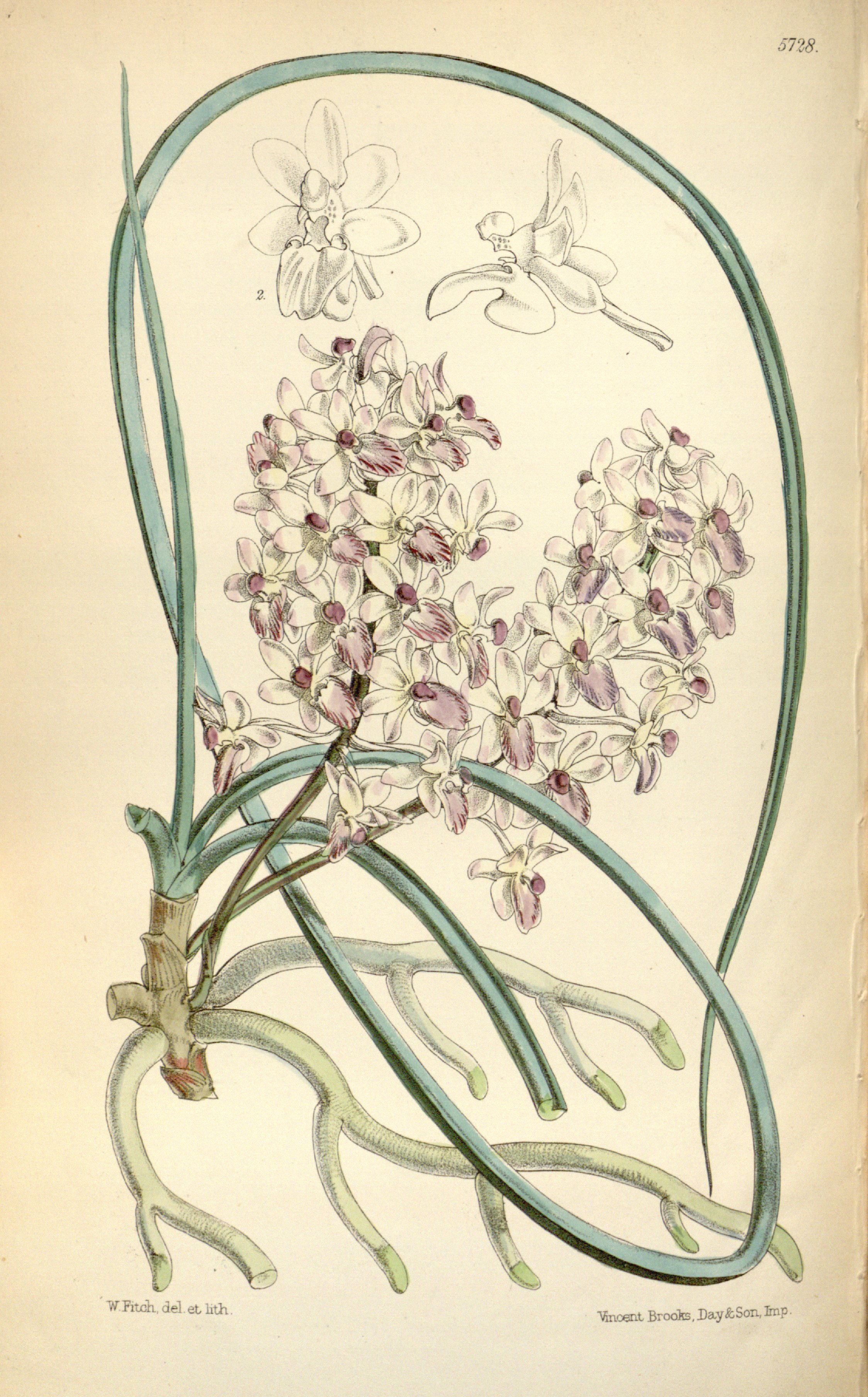 Illustration of Seidenfadenia mitrata (as syn. Aerides mitrata or Aerides mitratum)